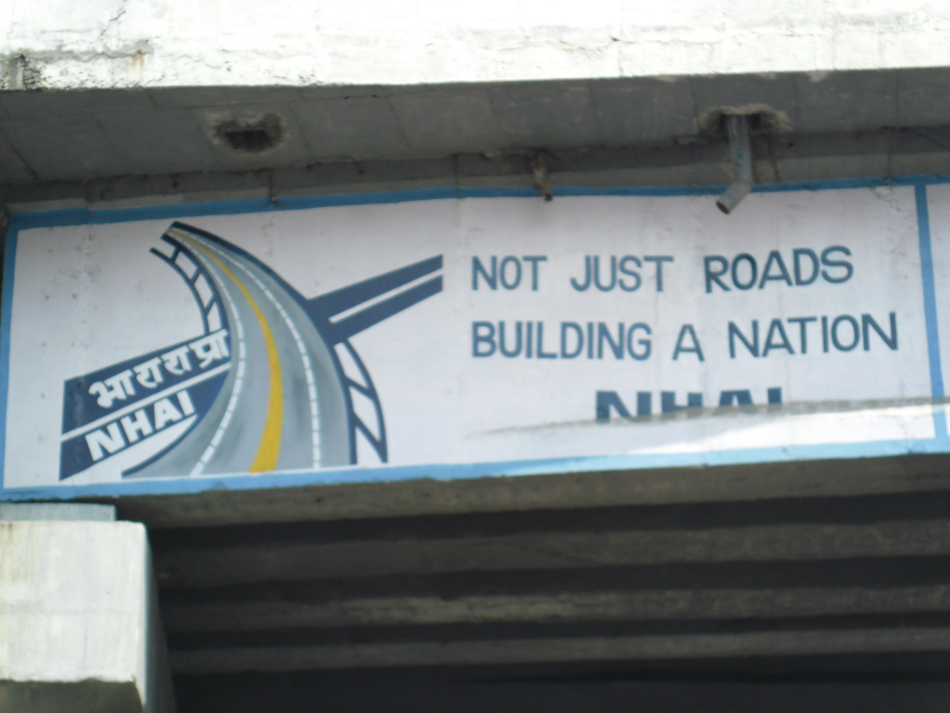 Indian national highway symbol